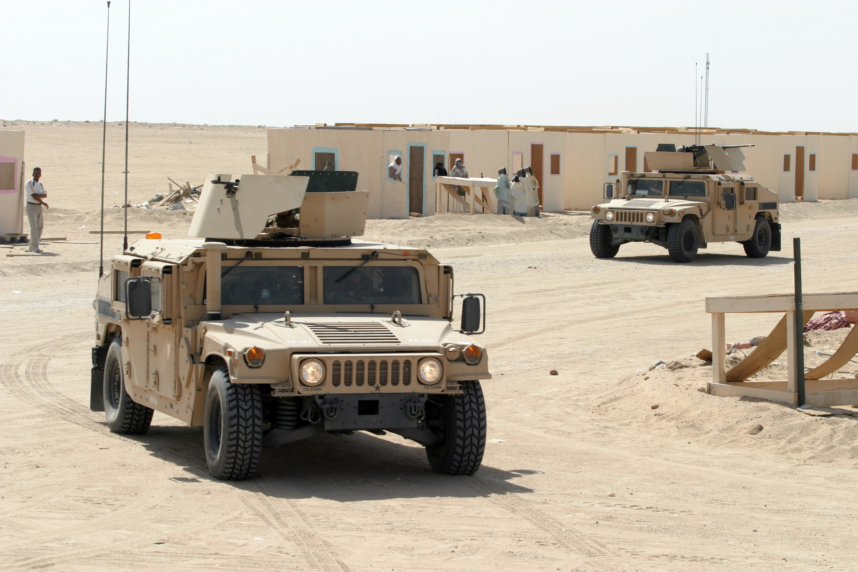 Two humvees from Security Platoon, Combat Logistics Battalion 22, 22nd Marine Expeditionary Unit (Special Operations Capable), rush to take up guarding positions after a simulated strike from an improvised explosive device during a convoy security training course held near Camp Buehring, Kuwait, Sept. 19, 2007. CLB-22 serves as the Logistics Combat Element of the 22nd MEU(SOC), which is conducting sustainment training in Kuwait as part of a scheduled deployment.